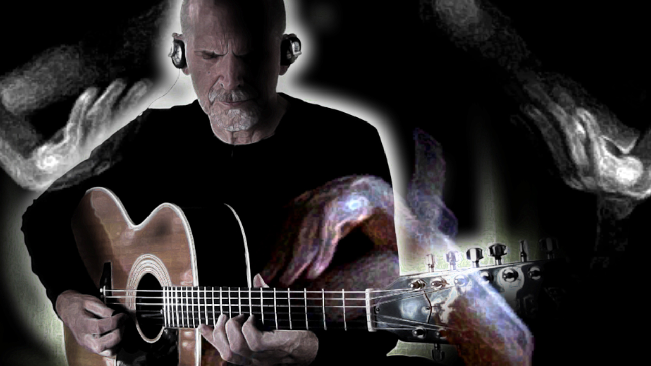 Ilkka Niemeläinen improvising with bare hands